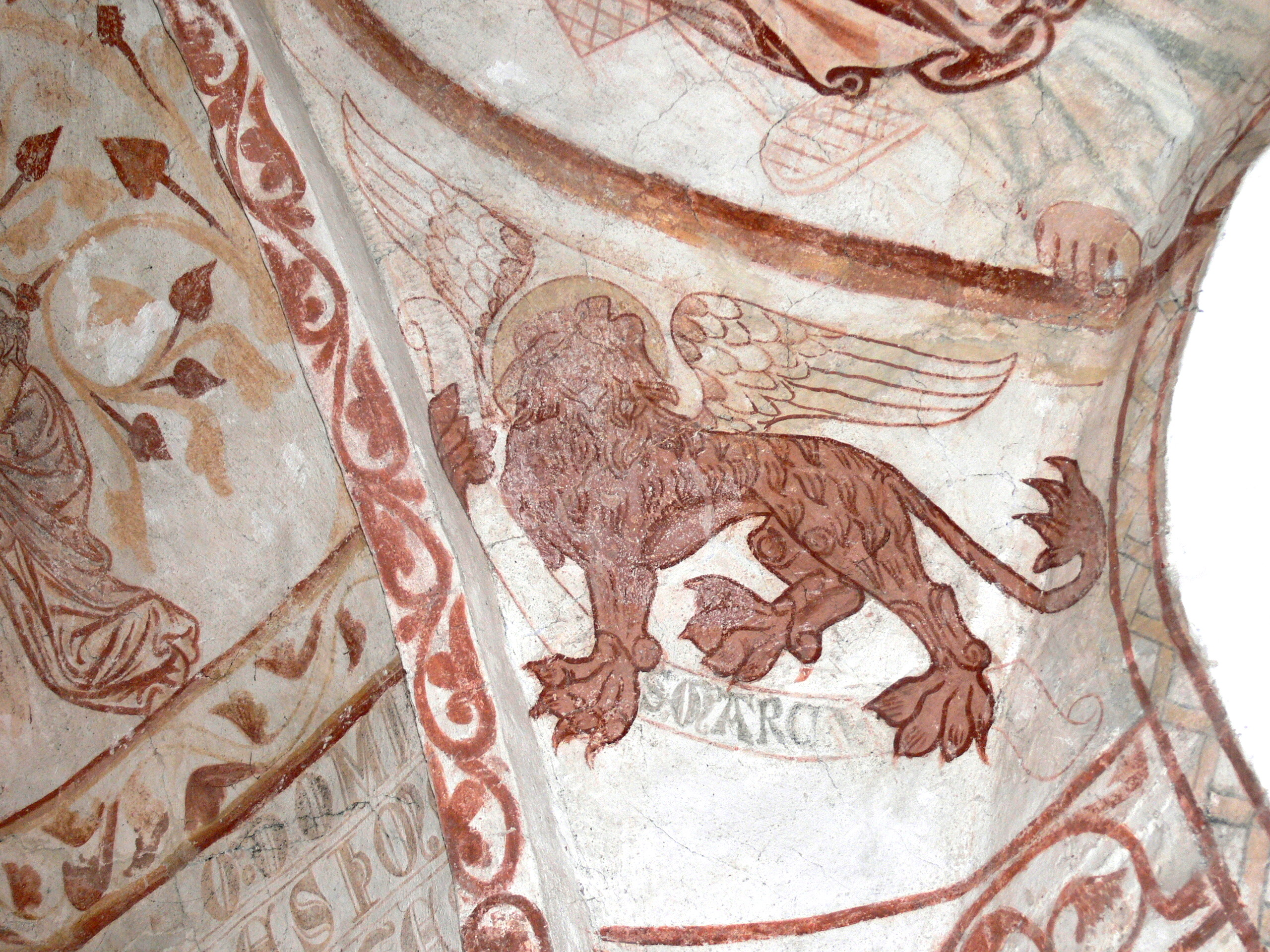 Nørre Alslev church. Frescos in the apse ( 13th century ): Lion of Saint Mark